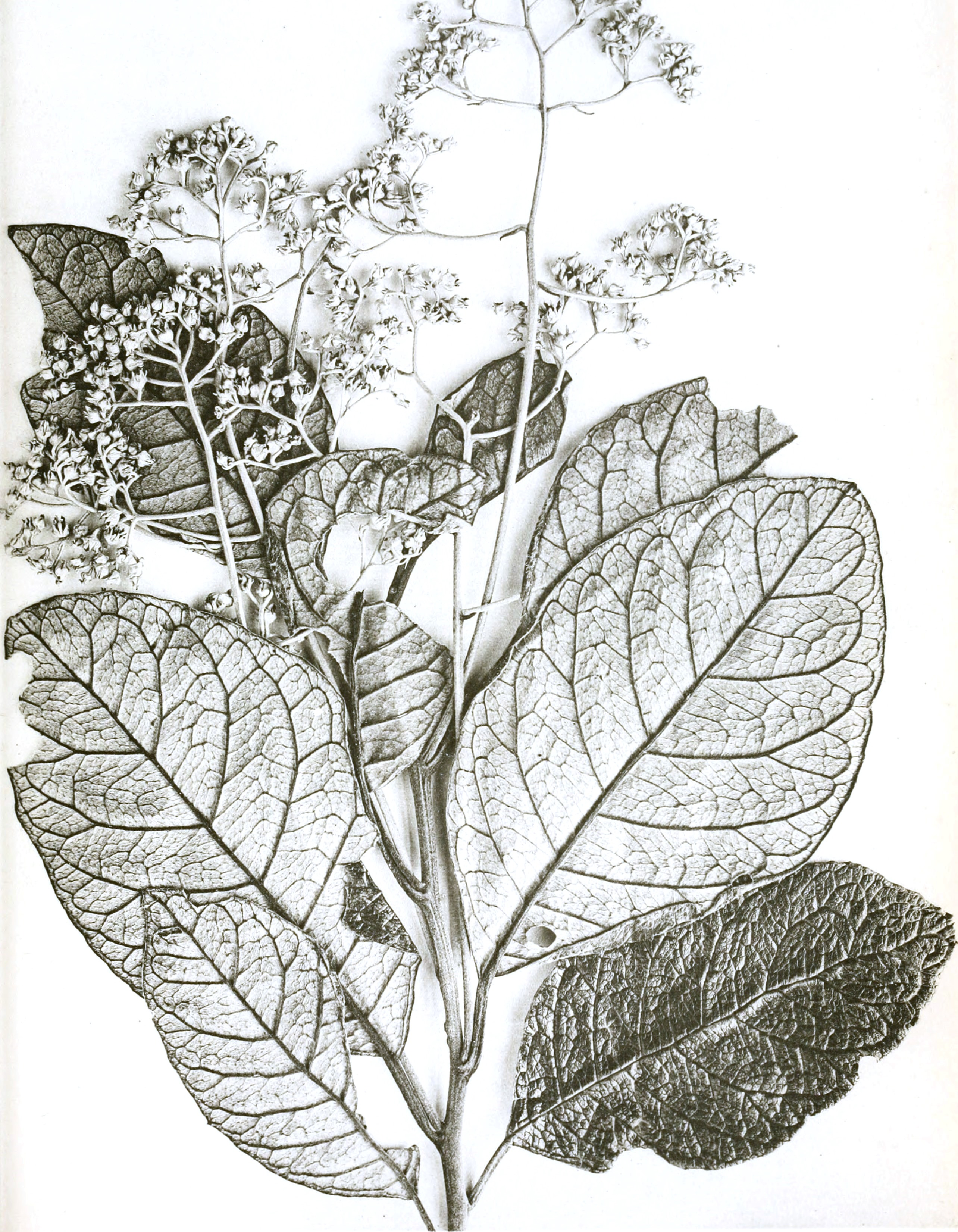 Title: Annalen des Naturhistorischen Museums in Wien Year: 1907 (1900s) Authors: Naturhistorisches Museum (Austria) Subjects: Naturhistorisches Museum (Austria); Natural history Publisher: Wien, Naturhistorisches Museum [etc. ] Text Appearing Before Image: M. Zemann. Studien zu einer Monographie der Gattung Argophyllum Forst. Taf. IX. 1k, Text Appearing After Image: phot. Hans Fleischmann. Argophyllum laxum. Annalen des k. k. naturhist. Hofmuseums, Band XXII.